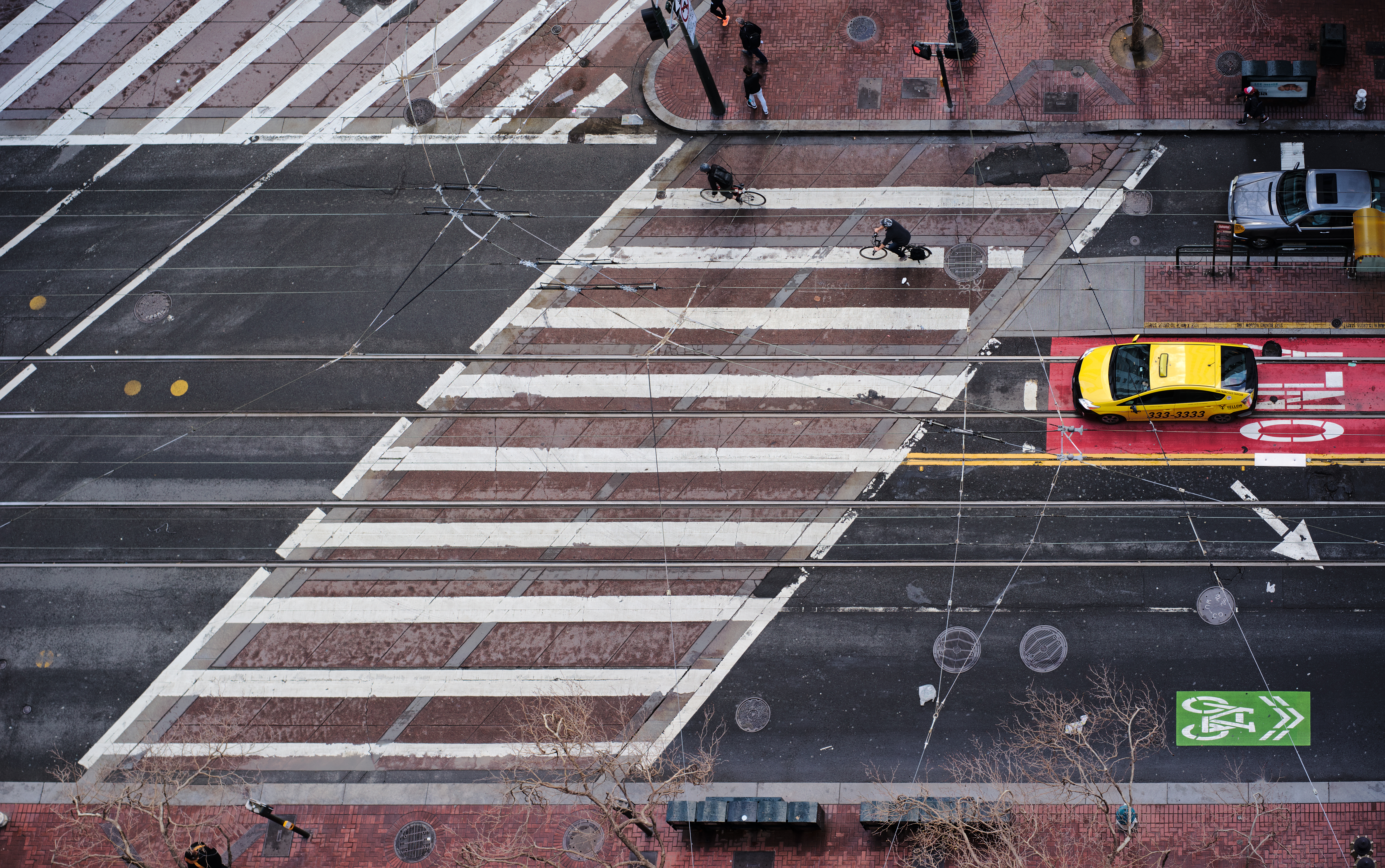 Pedestrian crossing on Market Street at Third Street, San Francisco, as seen from One Kearny St.